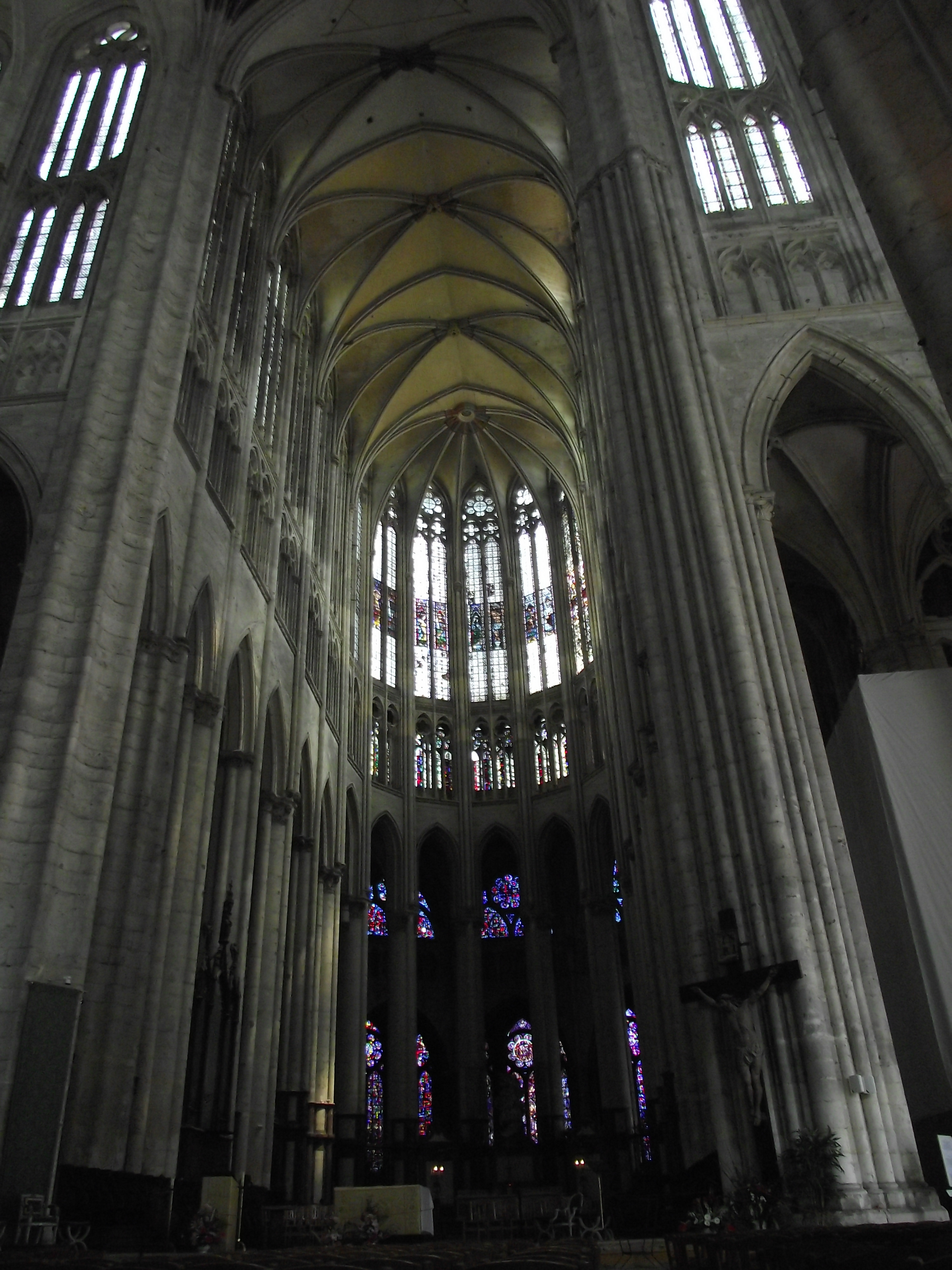 Beauvais, Saint Peter's Cathedral, Interior